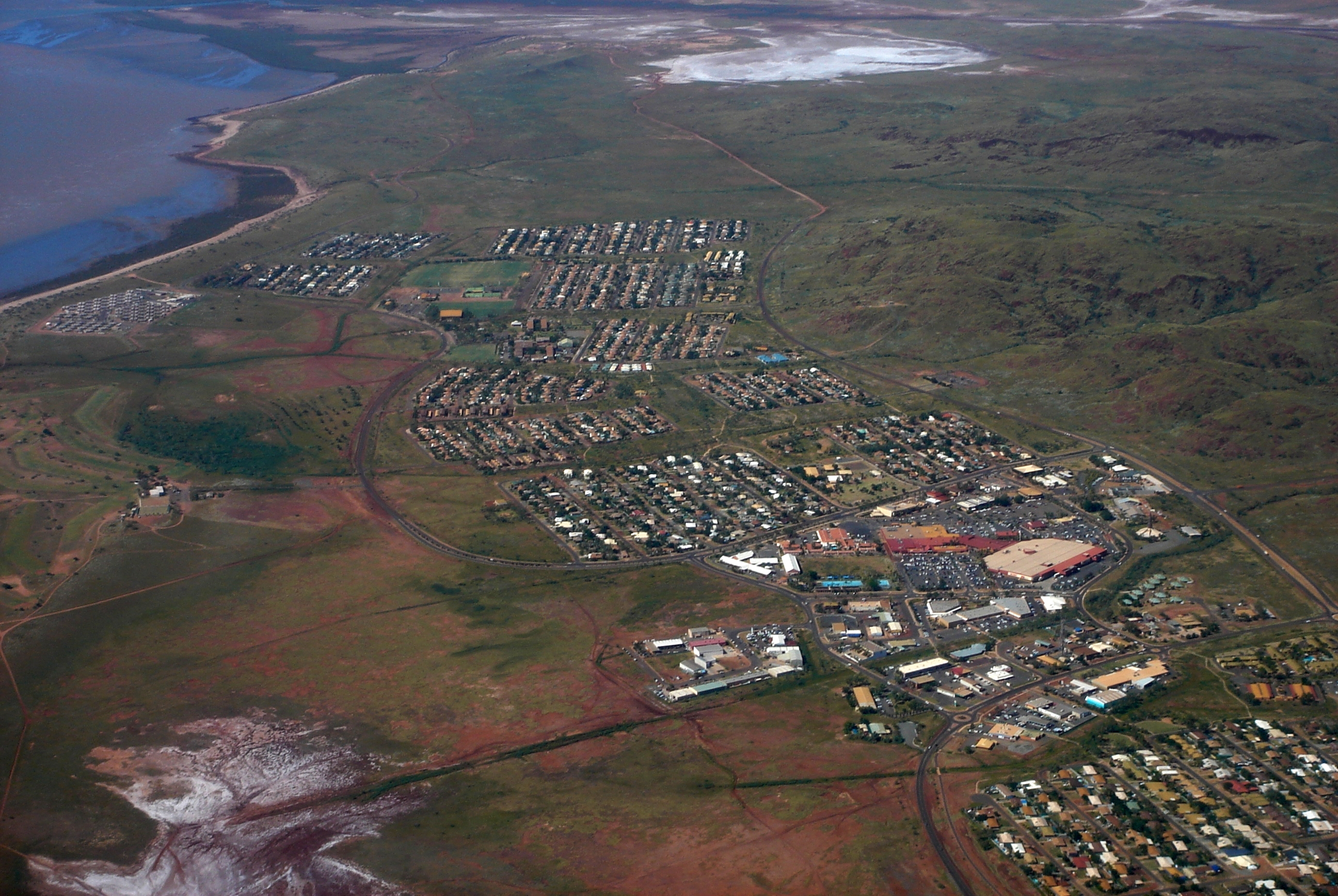 Aerial view of Karratha, Western Australia